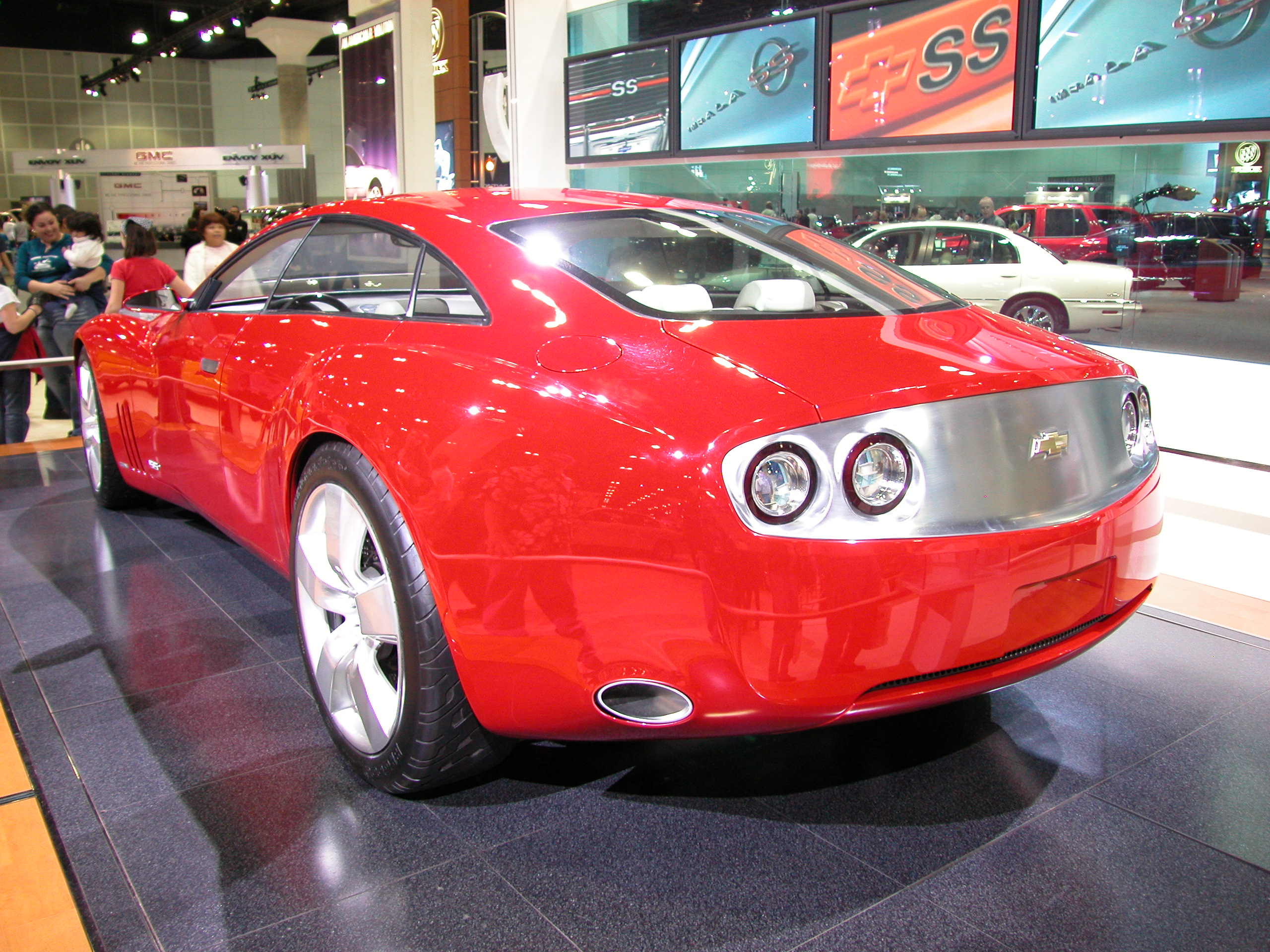 Chevrolet SS concept vehicle at the 2004 Los Angeles Auto Show. Camera used is a Nikon Coolpix 5000.